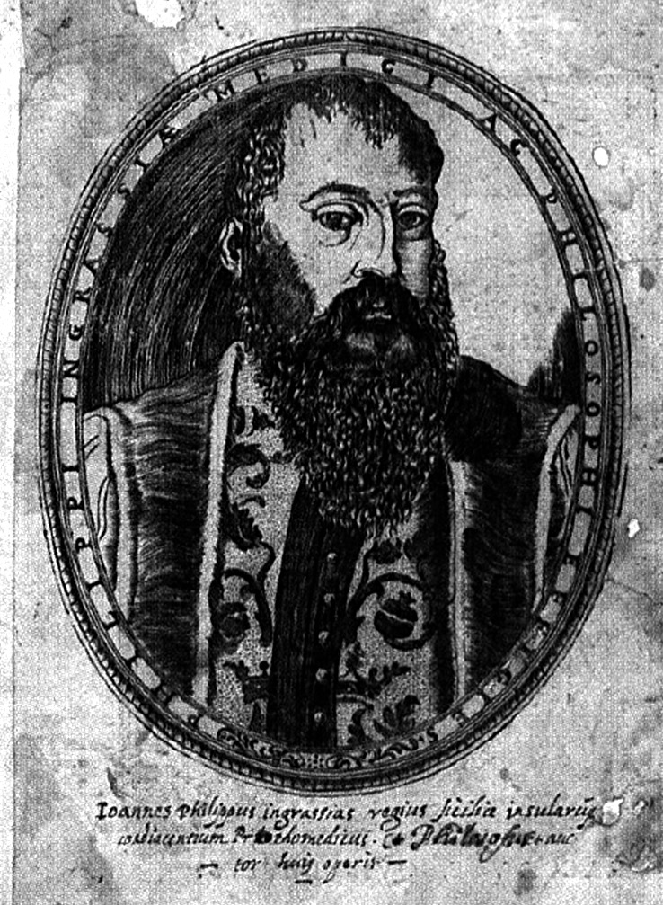 Portrait of Ingrassia